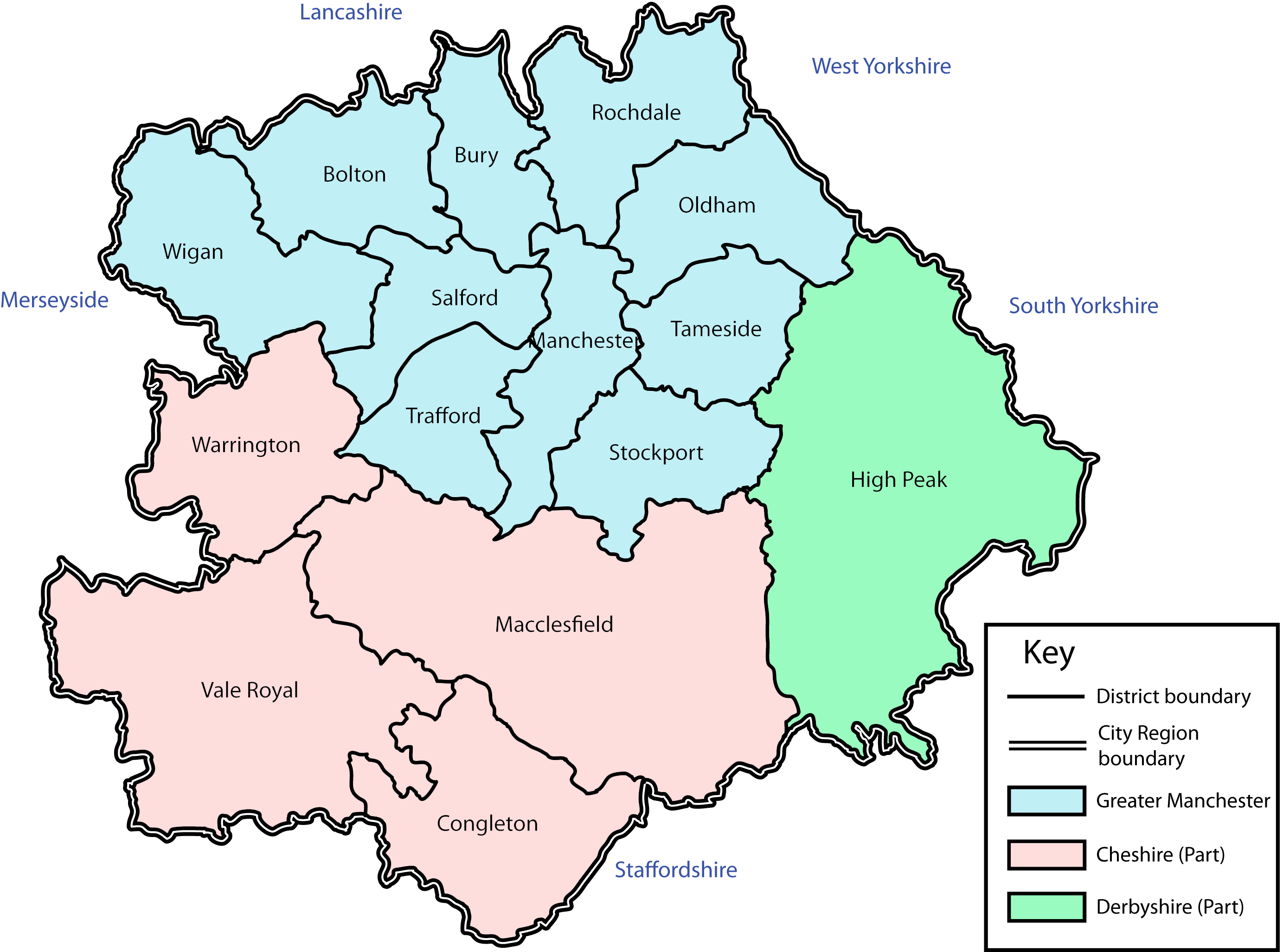 A map of the Manchester City Region.